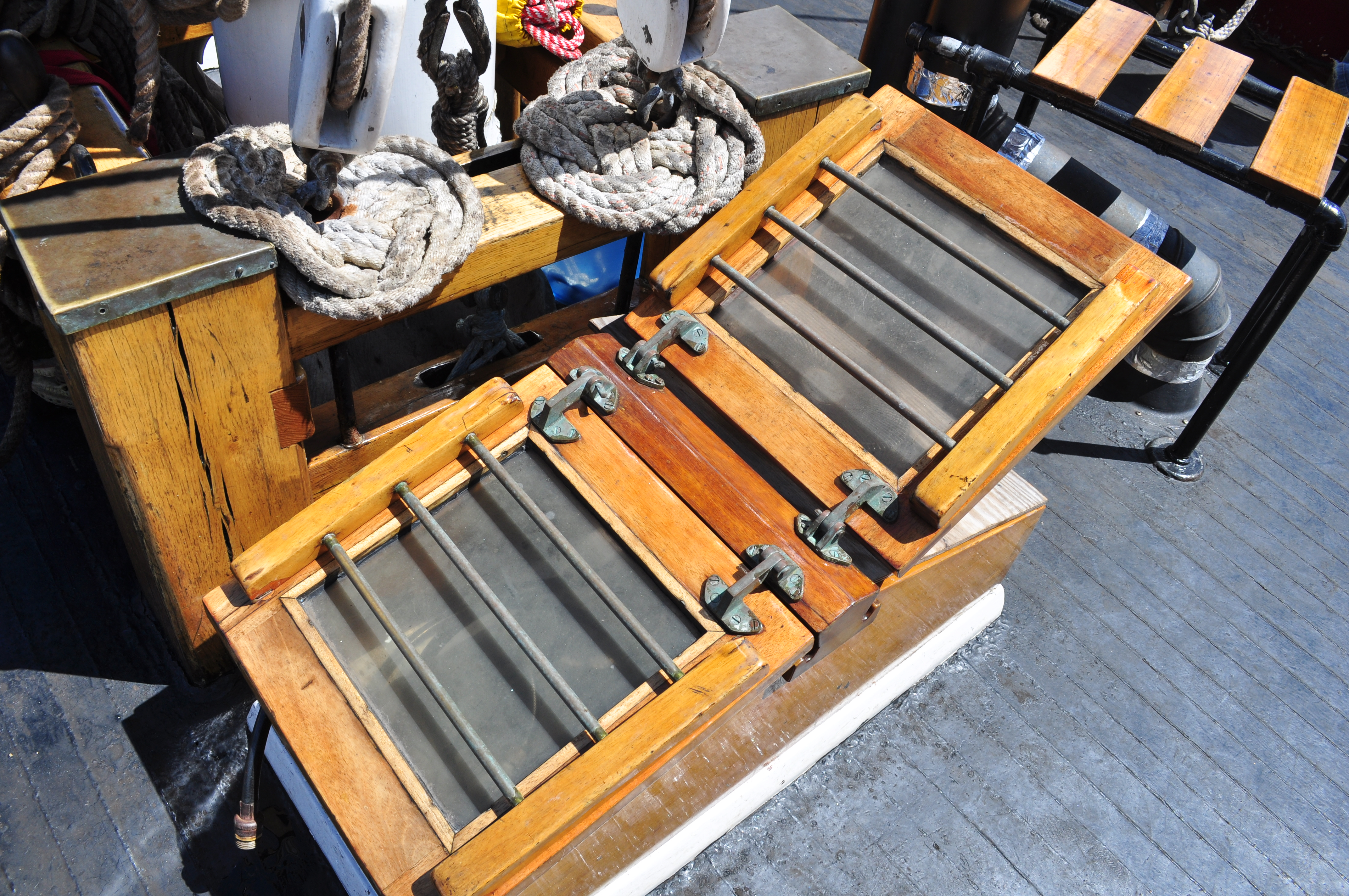 Detail (light hatch, I believe), deck of the Adventuress. Carrick mats at upper left. Photographed while the Adventuress was at Shilshole Bay Marina, Ballard, Seattle, Washington, U.S. for Marina Day 2016. Adventuress is a National Historic Landmark.